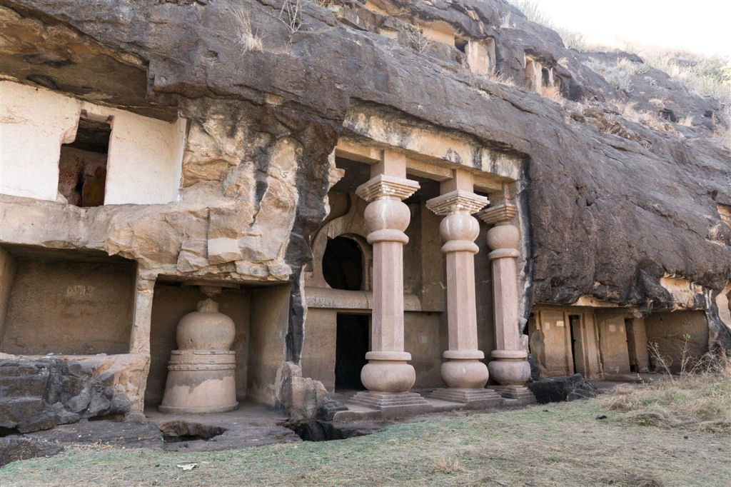 Amba-Ambika caves, at the Manmodi caves, near Junnar, India